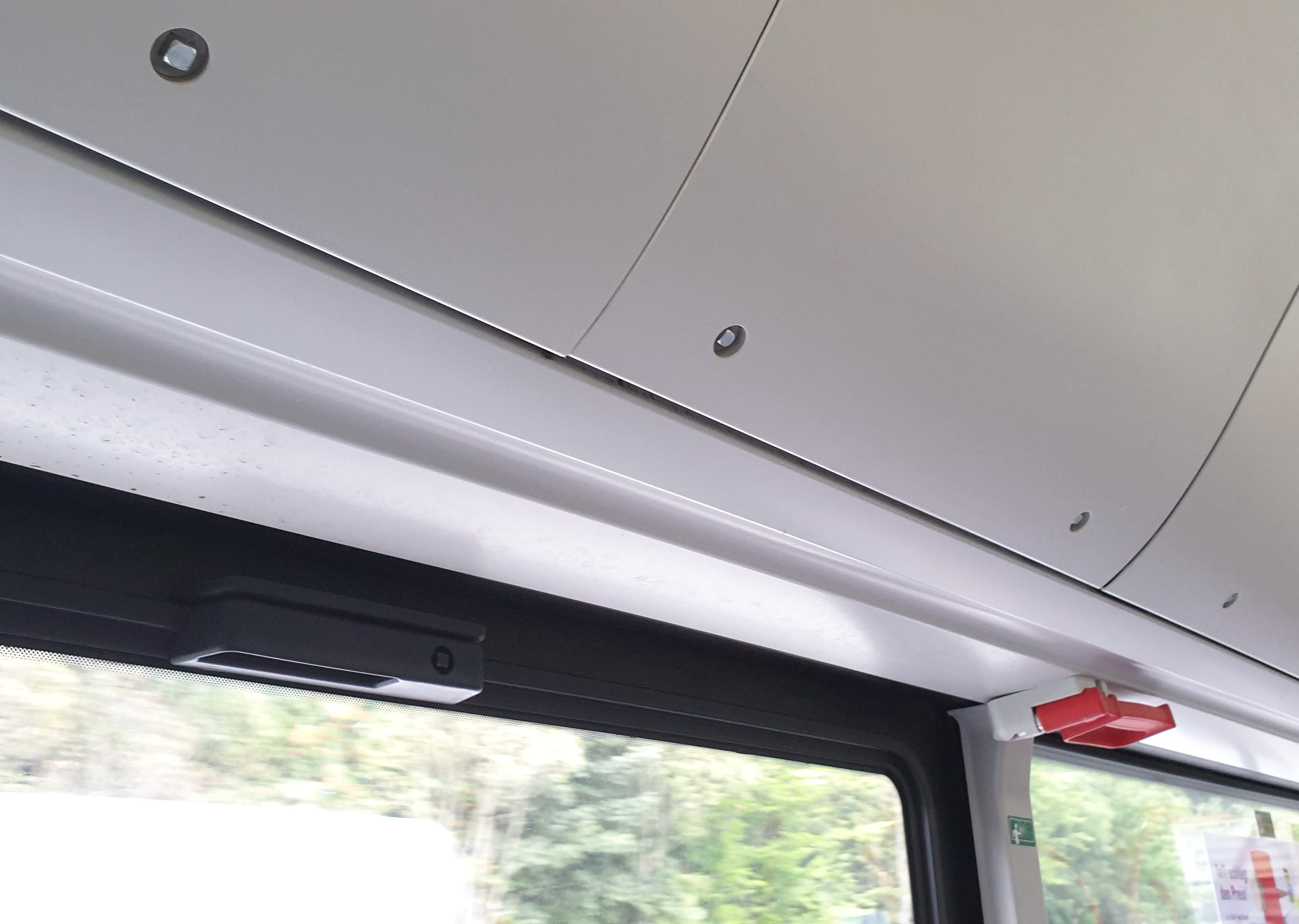 Ceiling-covers and window with square locks on a MAN Lion's City ÜLL bus